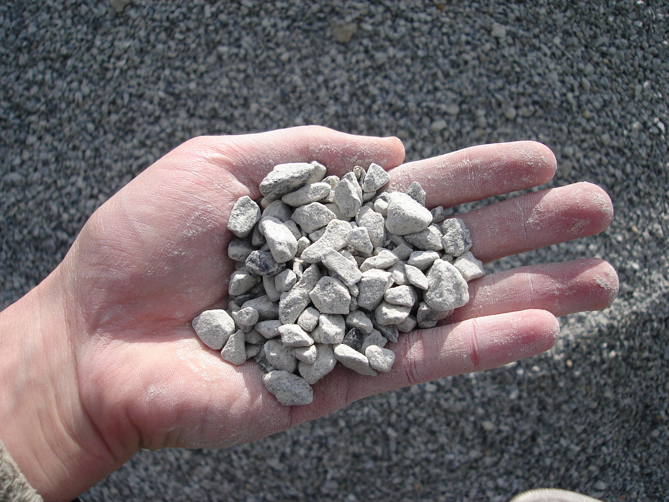 Limestone construction aggregate (6-10 mm) from a quarry in Alegia, Basque Country.